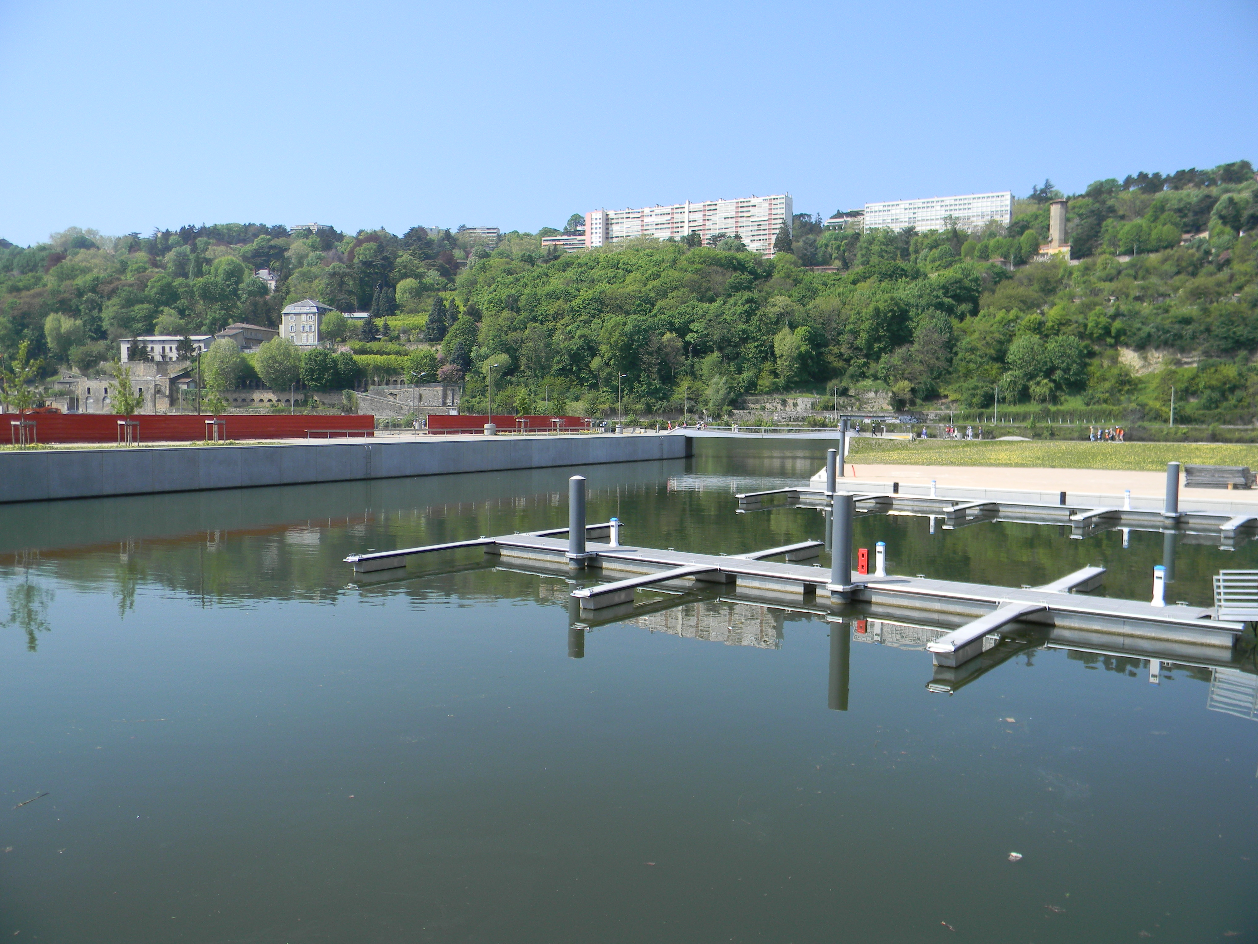 The marina of the Confluence district in Lyon